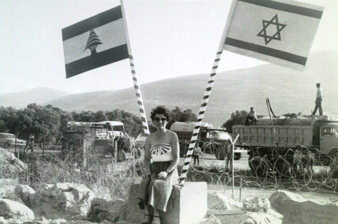 Israeli and Lebanese flags at the border between the two countries during the first Lebanon War, 1982